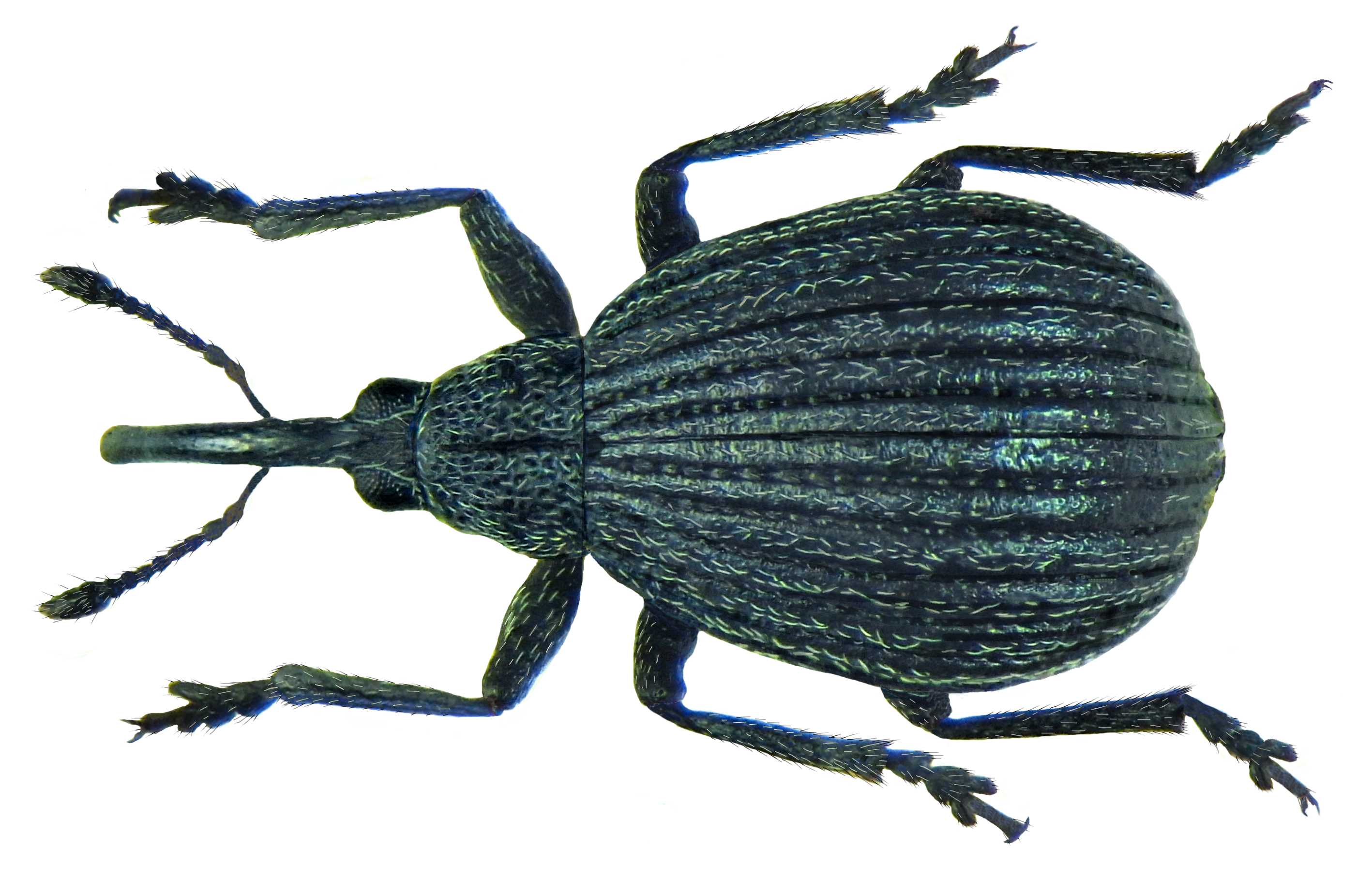 Family: Apionidae Size: 2,8 mm (2,2-3,1 mm) Origin: from Poland to Central and Western Europe to North Africa Ecology: lives mainly on Sarothamnus scoparius but also on Genista, Ulex and Cytisus Location: Britain, Woking leg.det. J.J.Walker, 1939 Coll. Oxford University Museum of Natural History Photo: U.Schmidt, 2013